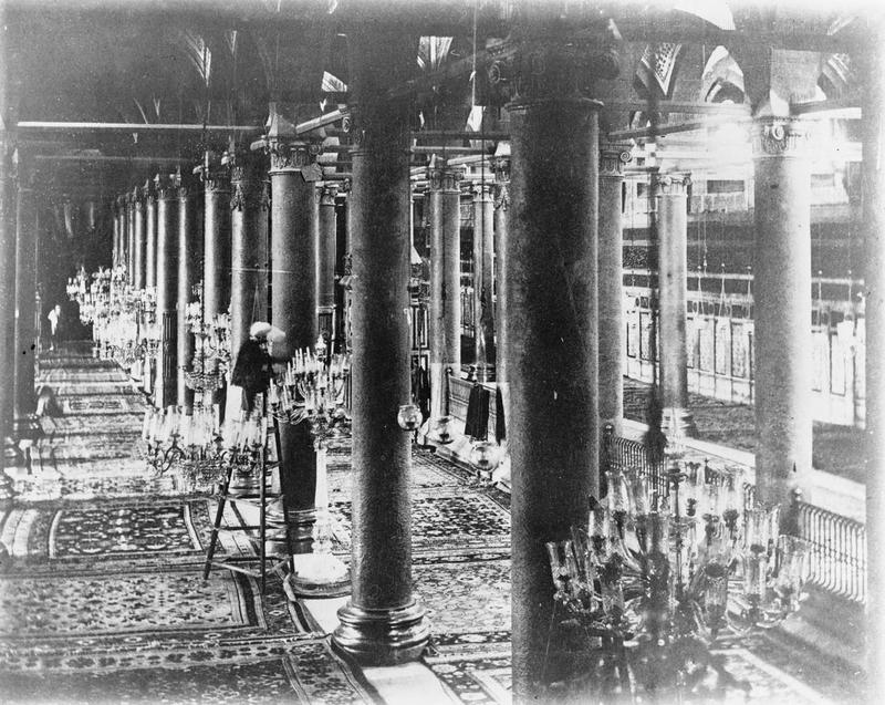 T E Lawrence and the Arab Revolt 1916 - 1918 Interior of the Prophet's Mosque at Medina.